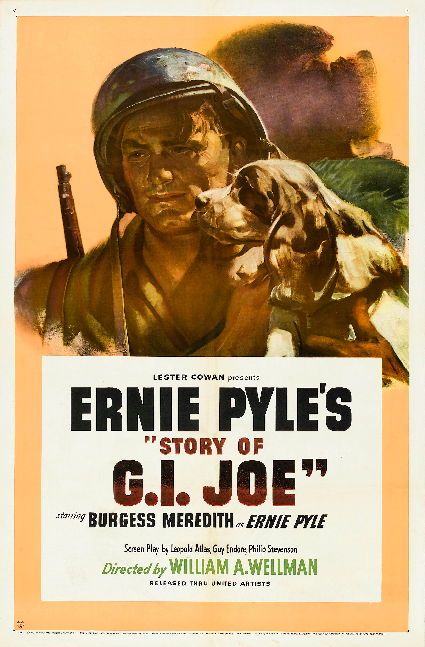 Theatrical release poster for the 1945 film The Story of G.I. Joe. The poster carries alternate title Ernie Pyle's "Story of G.I. Joe.